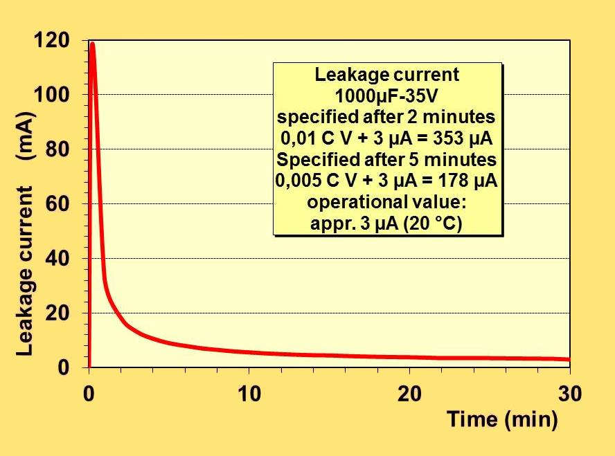 Typical leakage current curve